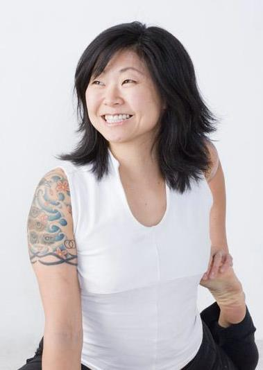 Yoga photo of Chicago based teacher, Mia Park. Photo by Jim Newberry